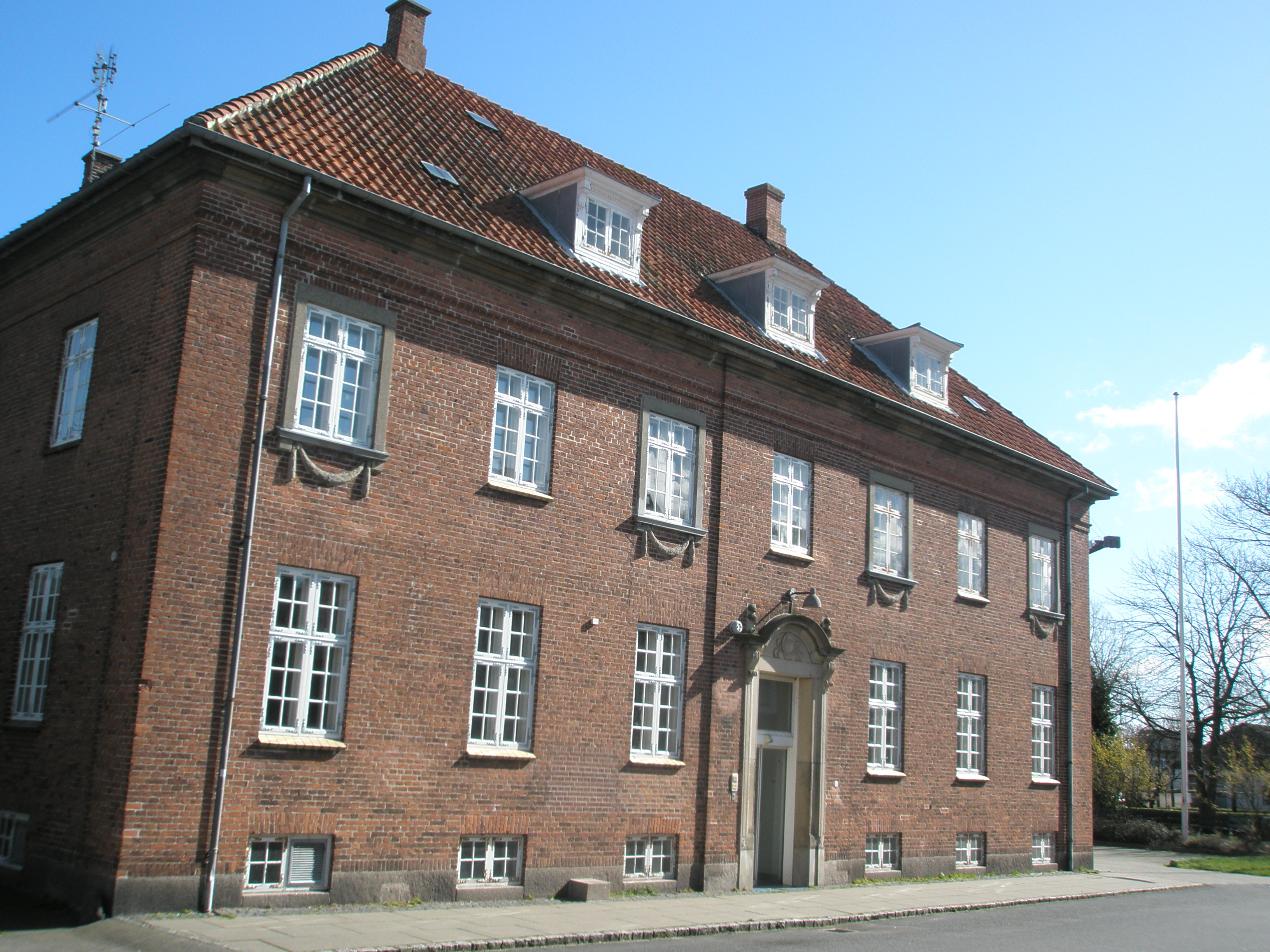 The old Postcentral in Marstal